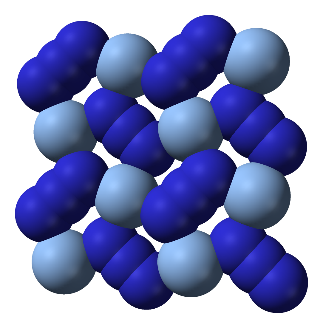 Space-filling model of a layer within the crystal structure of silver azide, AgN3. X-ray crystallographic data from Schmidt, C. L. Dinnebier, R.; Wedig, U.; Jansen, M. (2007). "Crystal Structure and Chemical Bonding of the High-Temperature Phase of AgN3". Inorganic Chemistry 46: 907-916. Image generated in Accelrys DS Visualizer.